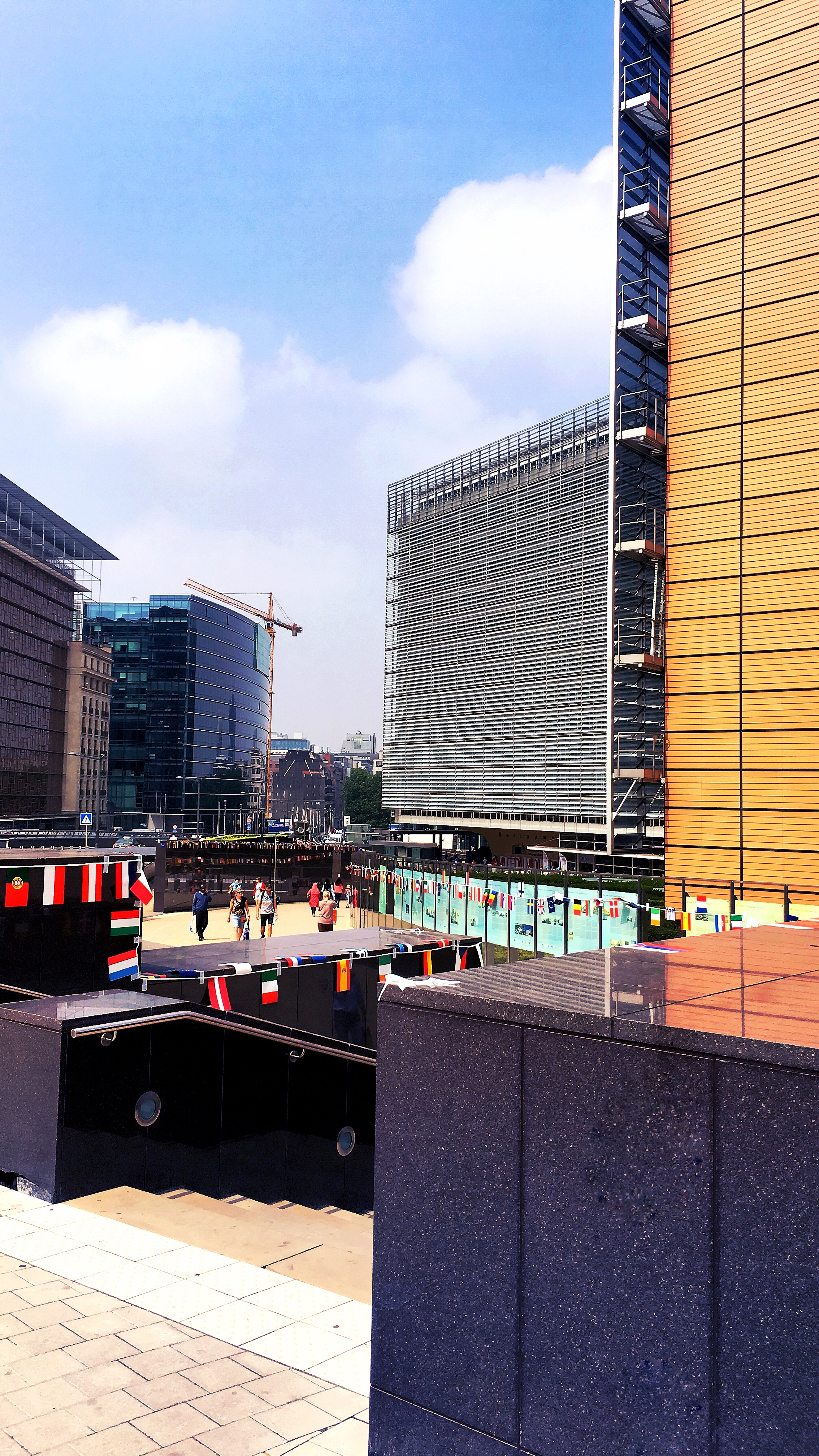 Berlaymont building exterior seen from the Schuman roundabout, 2016